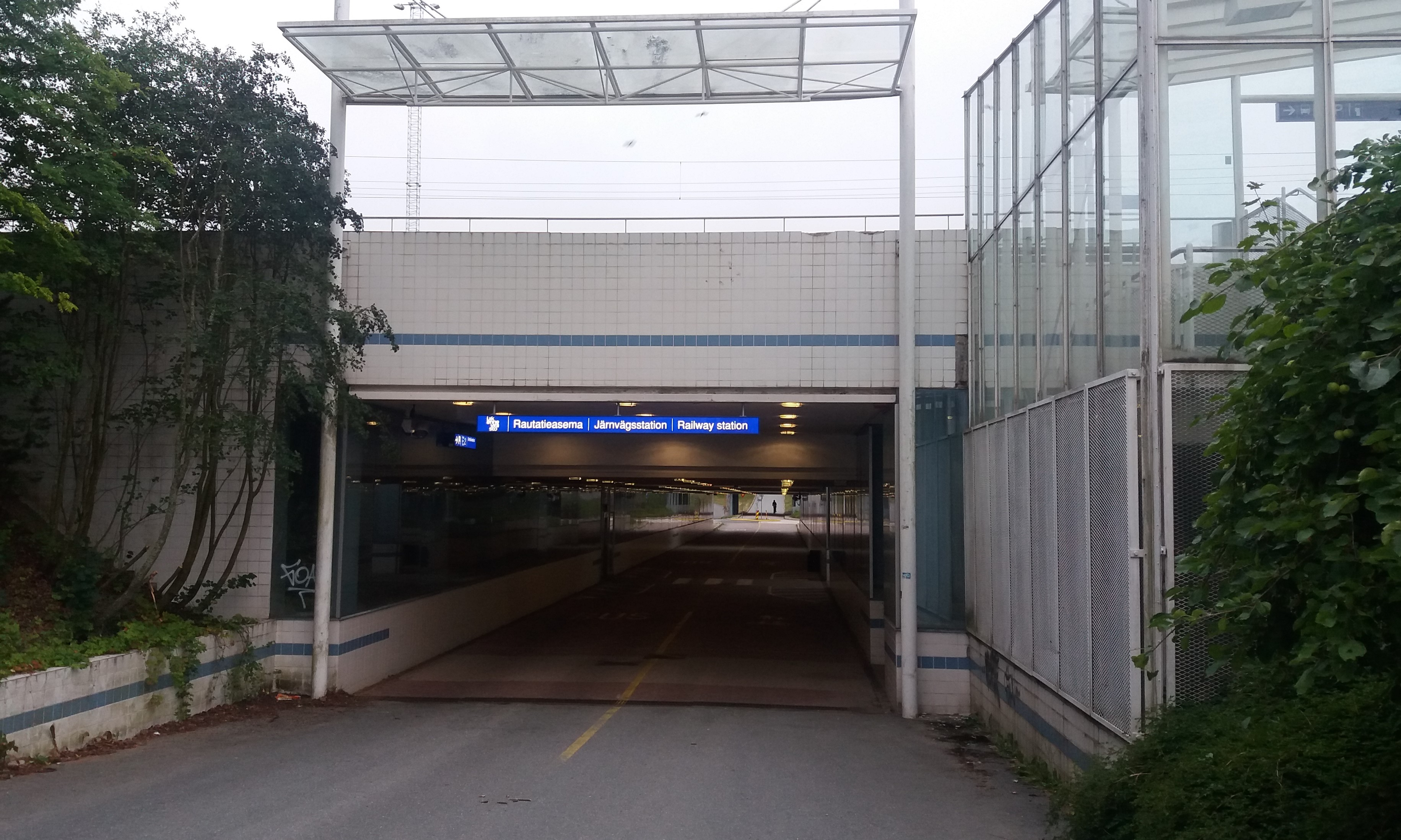 Entrance of the Porttaalitunneli tunnel at the Pori railway station in Finland.